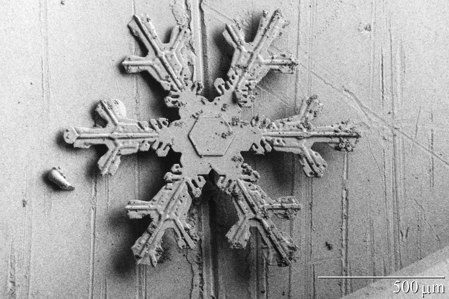 Hexagonal plate with dendritic extensions